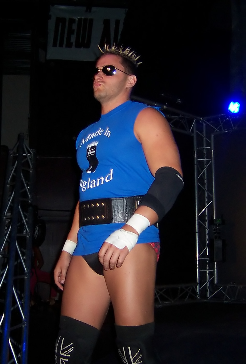 Nigel Mcguinness before his ROH World Championship defense against El Generico in August 2008.